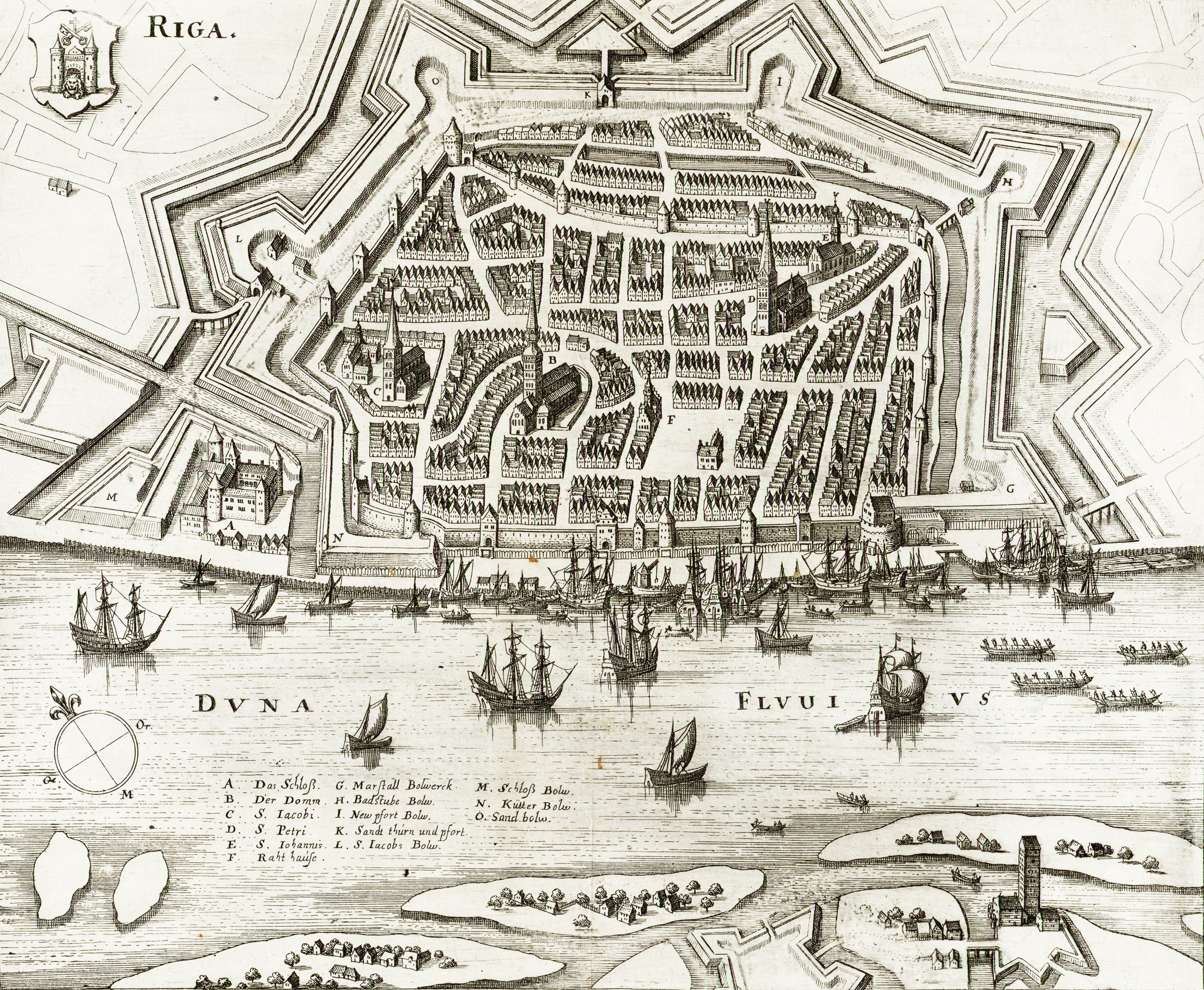 Map of Riga approximately 1637. Compass pointing North-East.